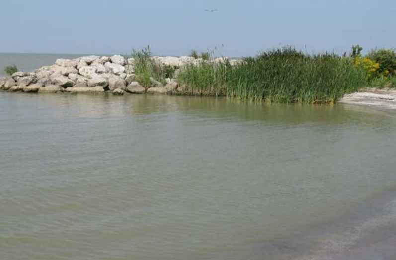 Nonvisible cyanobacteria HAB. Just because you cannot see a HAB in the water clearly does not mean that a bloom is not occurring in a water body. This picture shows a bloom at Maumee Bay State Park that has a high toxin concentration of cyanobacteria (greater than 5.0 micrograms/liter), and yet the cyanobacteria are not easy to see.